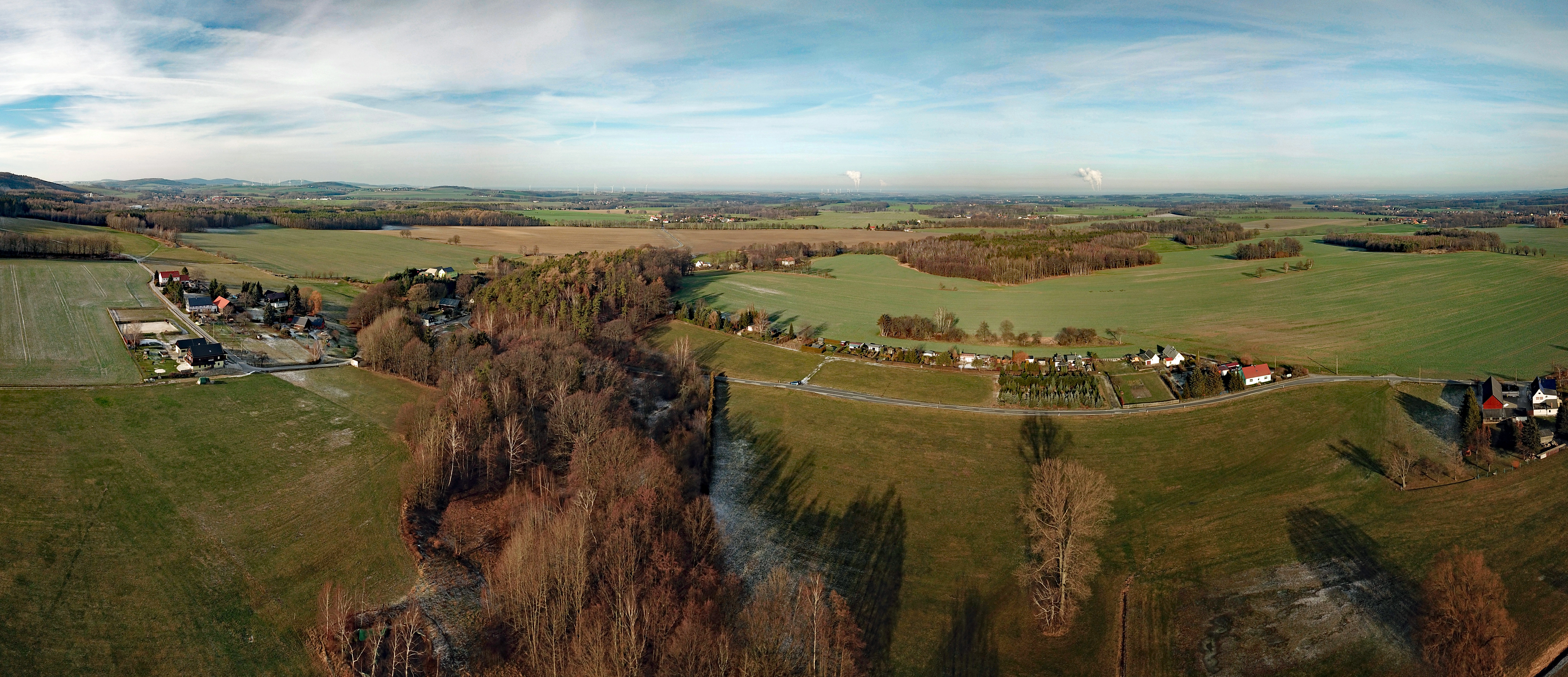 Cossern (Doberschau-Gaußig, Saxony, Germany) Hornjoserbsce: Powětrowy wobraz Kosarnje